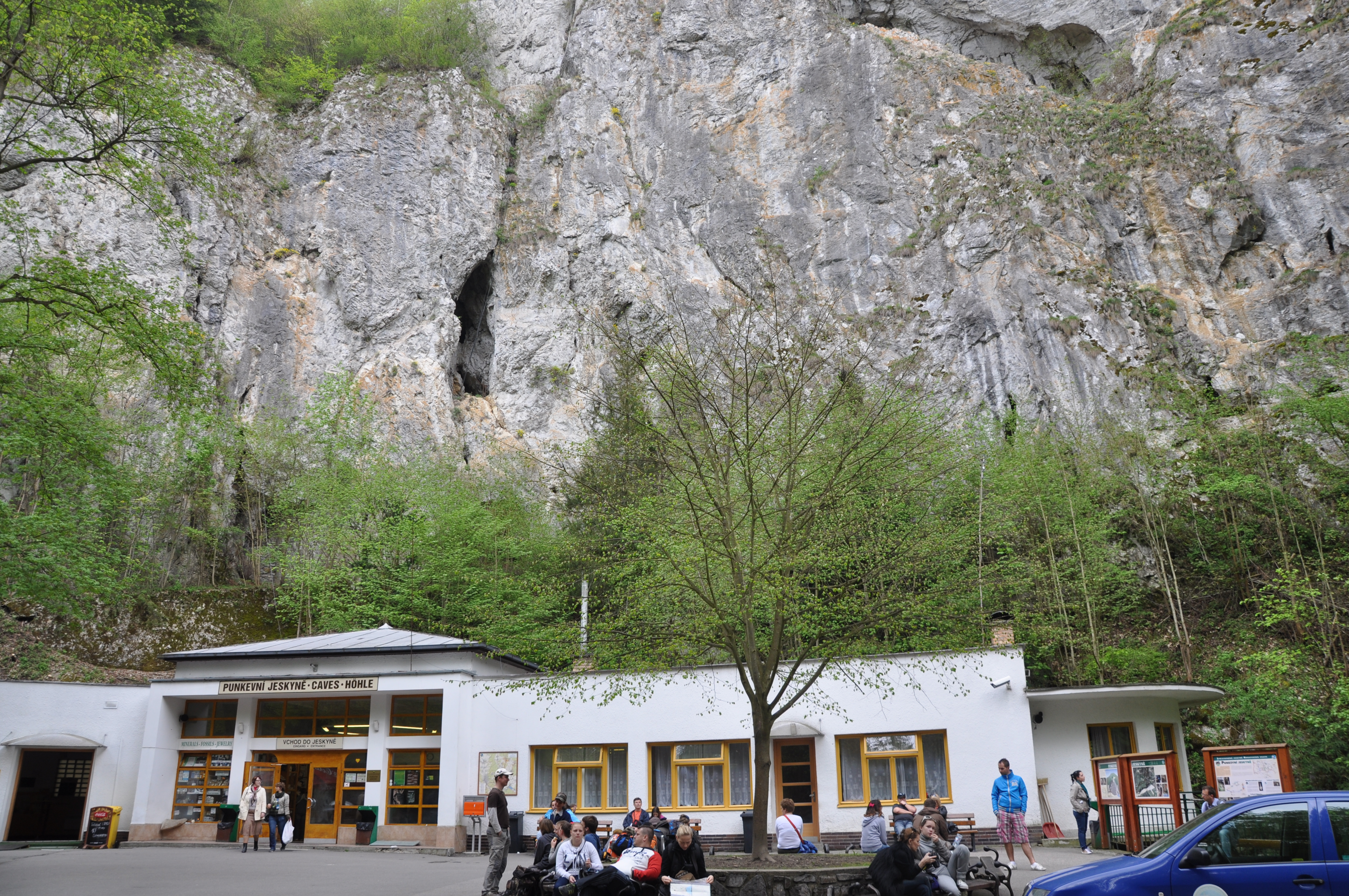 Punkva Caves, Moravian Karst, Blansko District, Czechia.